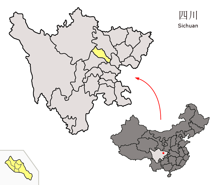 Location of Deyang Prefecture (yellow) within Sichuan province of China Map drawn in october 2007 using various sources, mainly : Sichuan province administrative regions GIS data: 1:1M, County level, 1990 Sichuan Counties map from